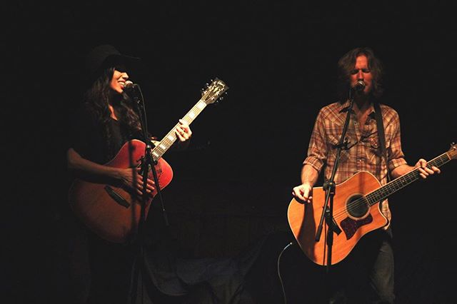 Dawn and Hawkes live